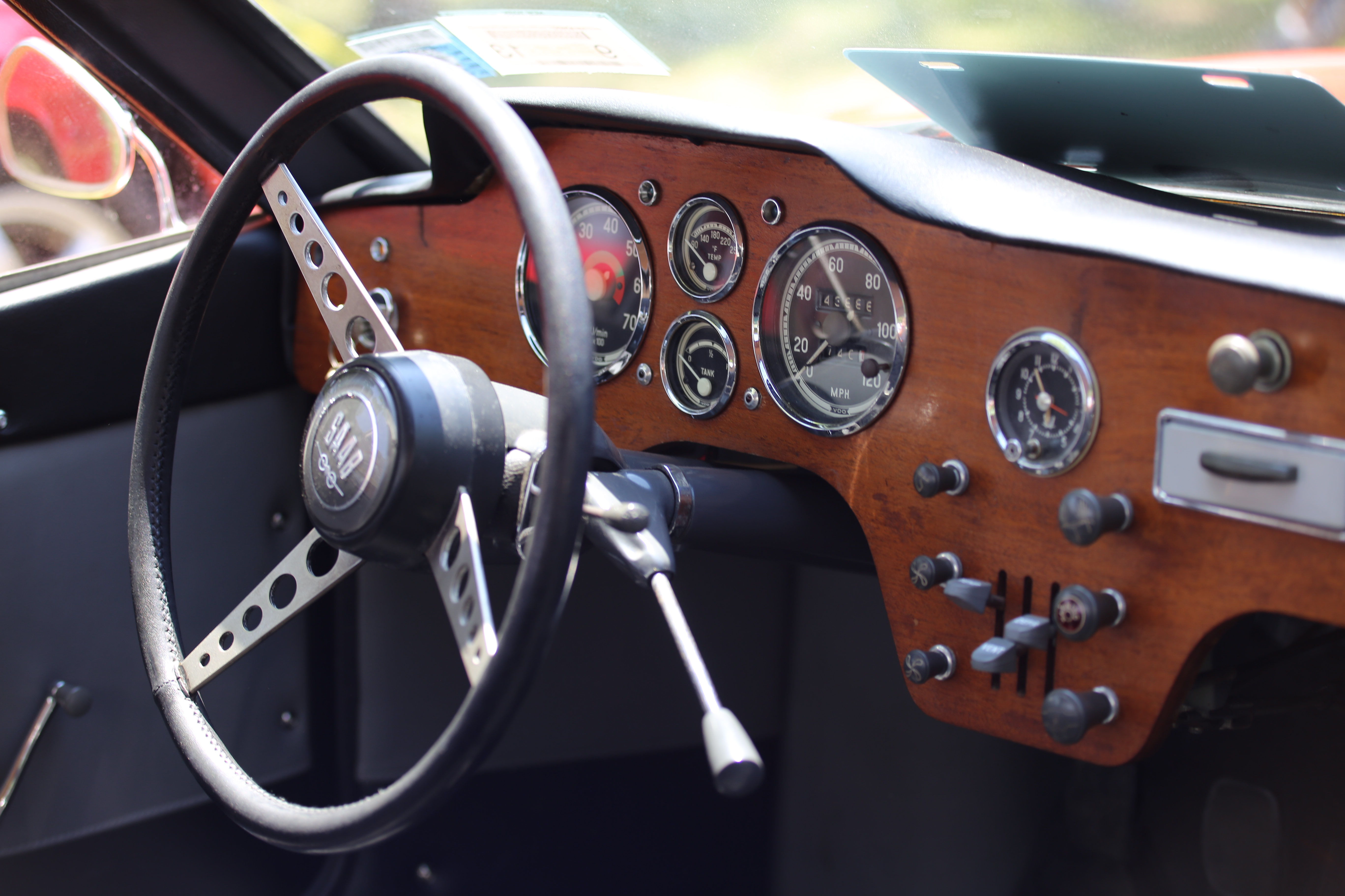 Dashboard of a 1966 SAAB Sonett II at the 2013 Greenwich Concours d'Elegance. Only 258 two-stroke Sonett IIs were built.